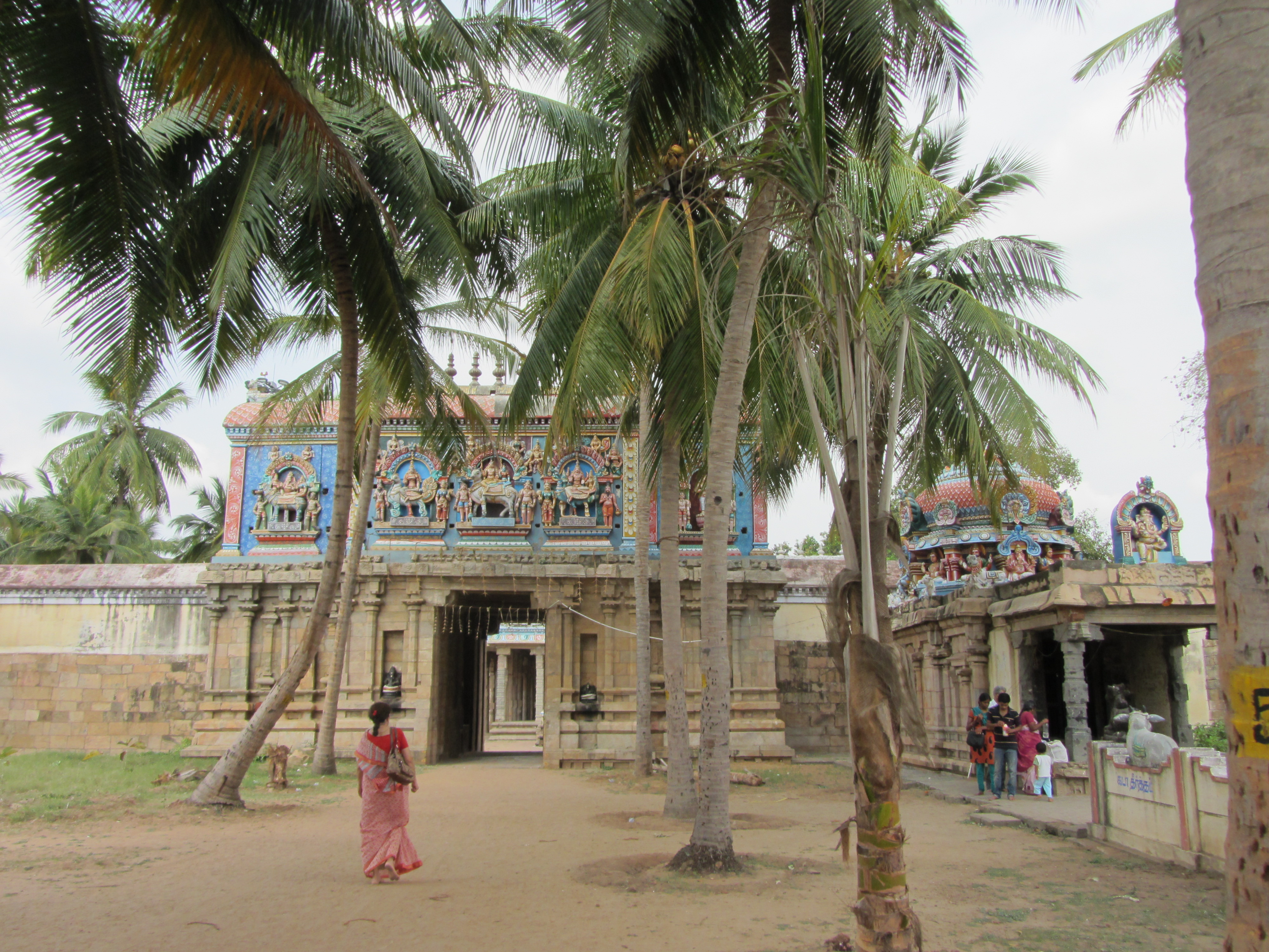 Vellai Vinayagar Shrine at the Thiruvalanjuli Kabardeeshwarar Temple in the village of Thiruvalanjuli in the Kumbakonam taluk of Thanjavur district, Tamil Nadu, India.